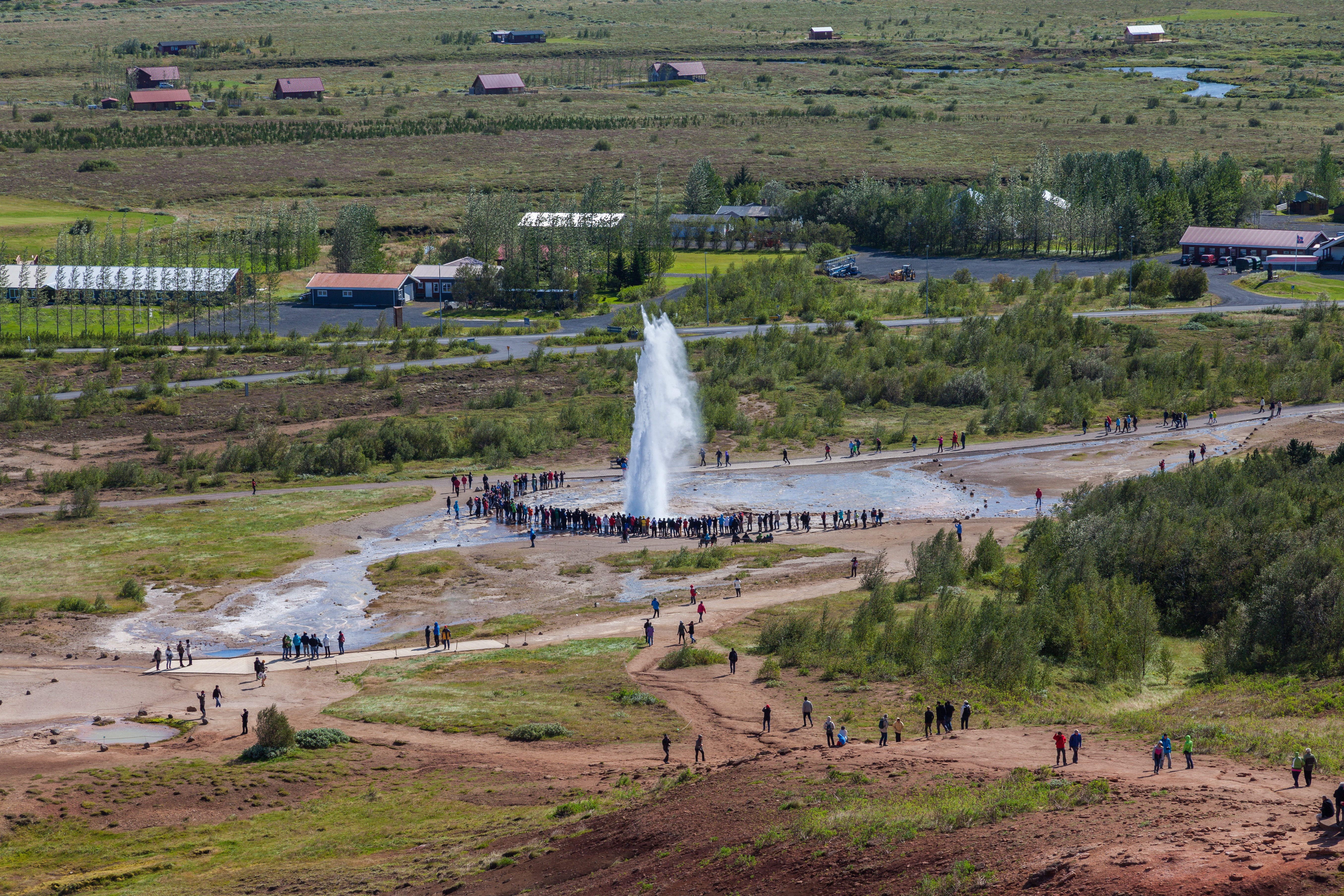 Strokkur, Geysir Geothermal Field, Suðurland, Iceland